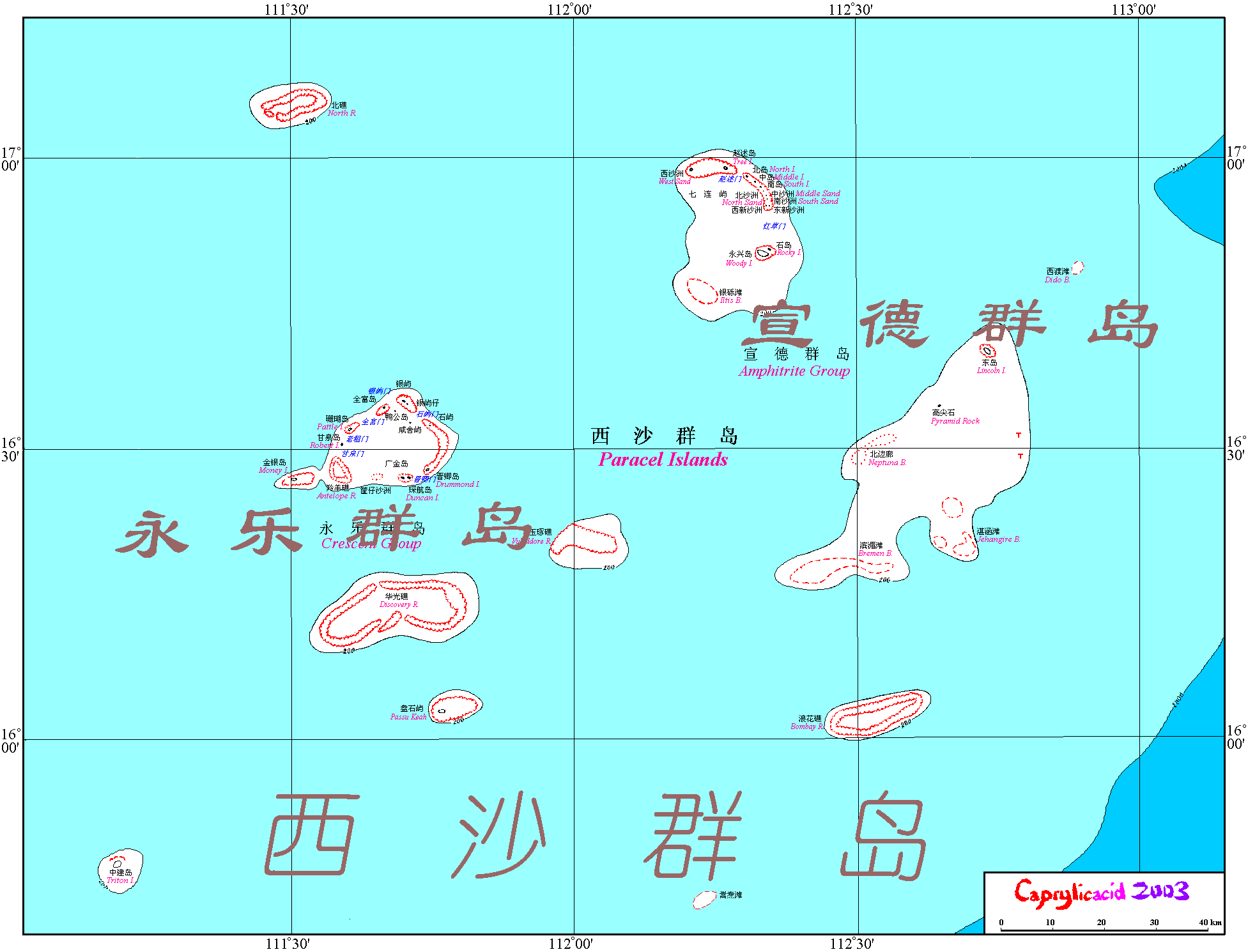 Map of Paracel Xisha